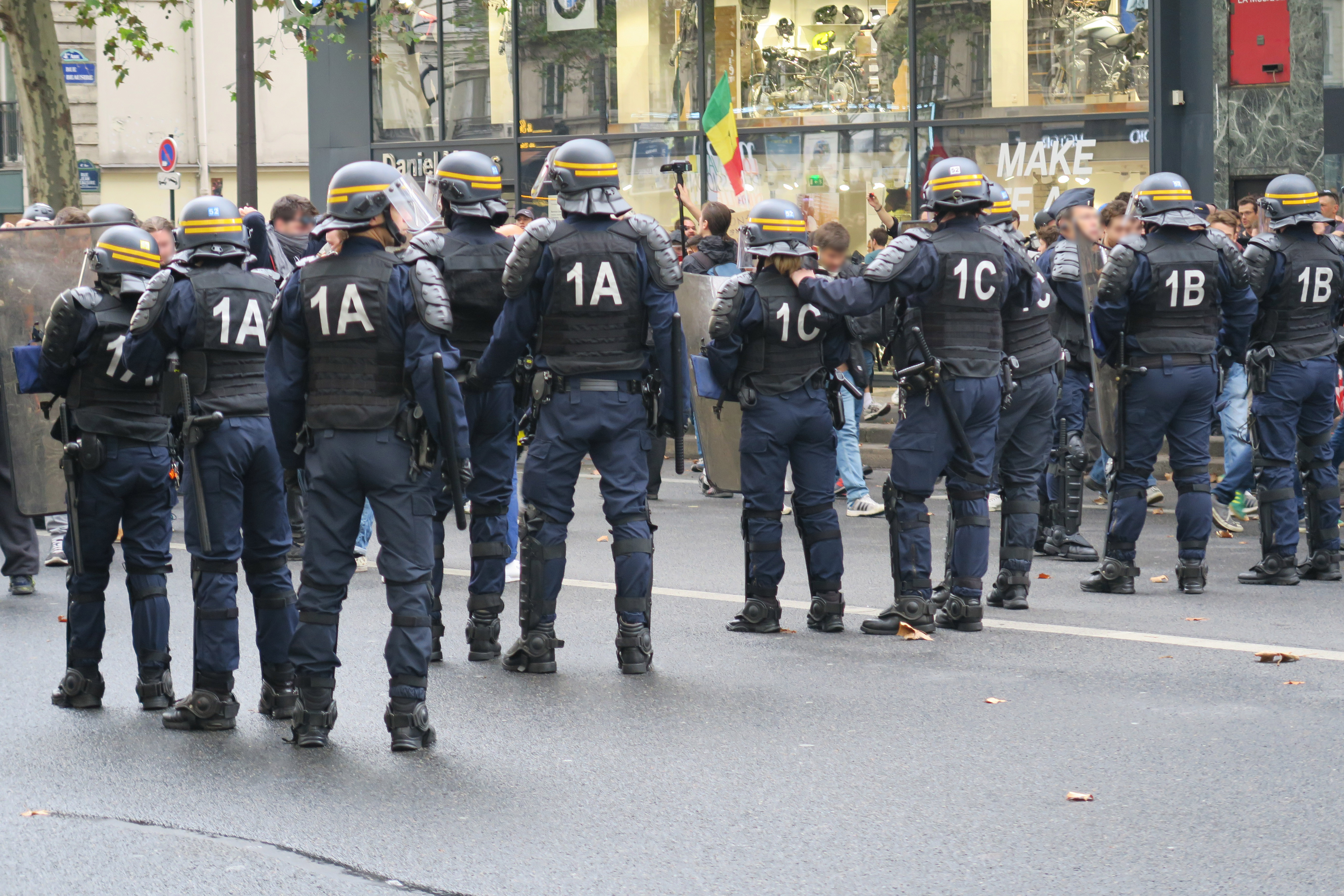 French CRS riot-control officiers during a demonstration